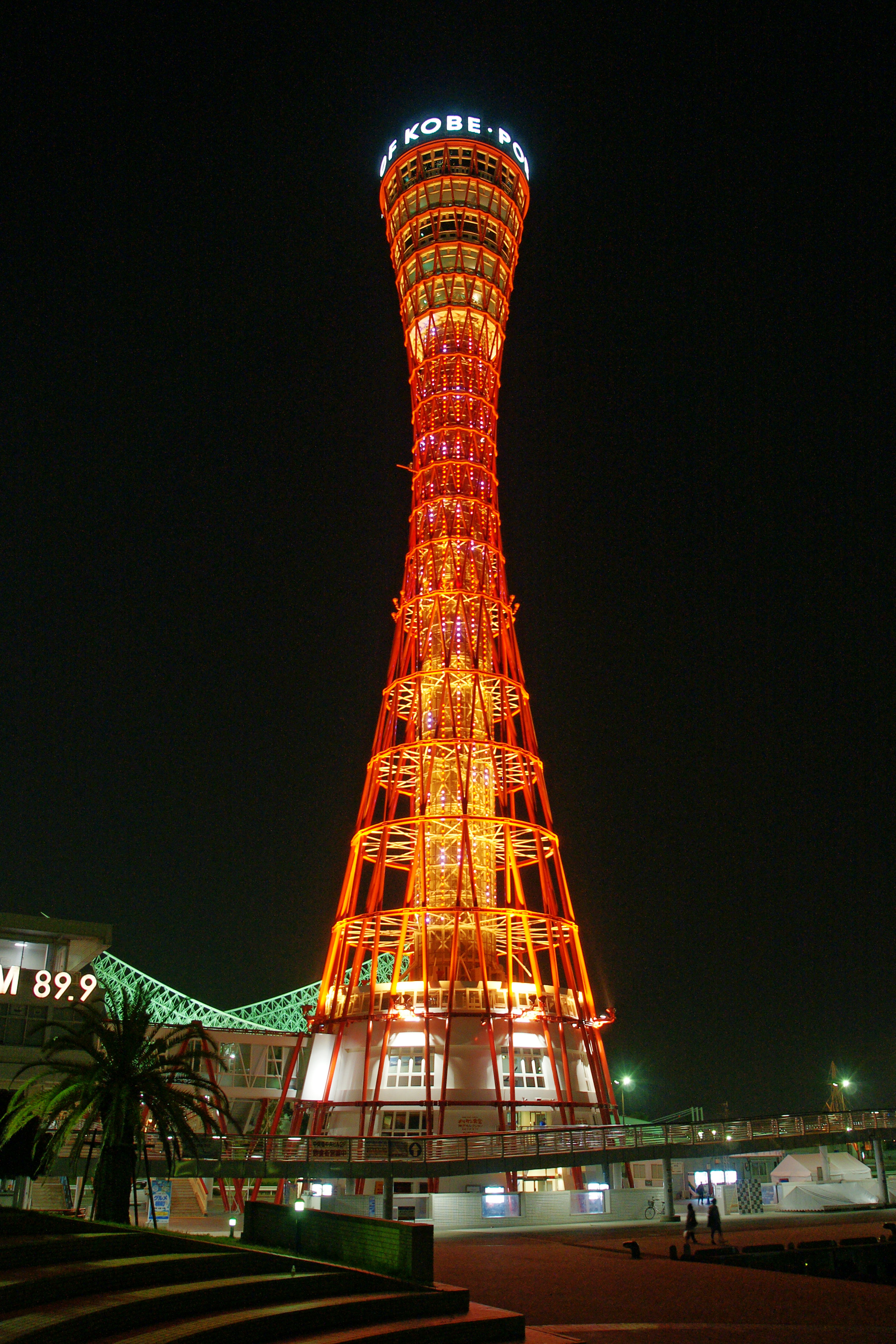 Kobe Port Tower in the Kobe harbor ( Kobe, Hyogo prefecture, Japan)